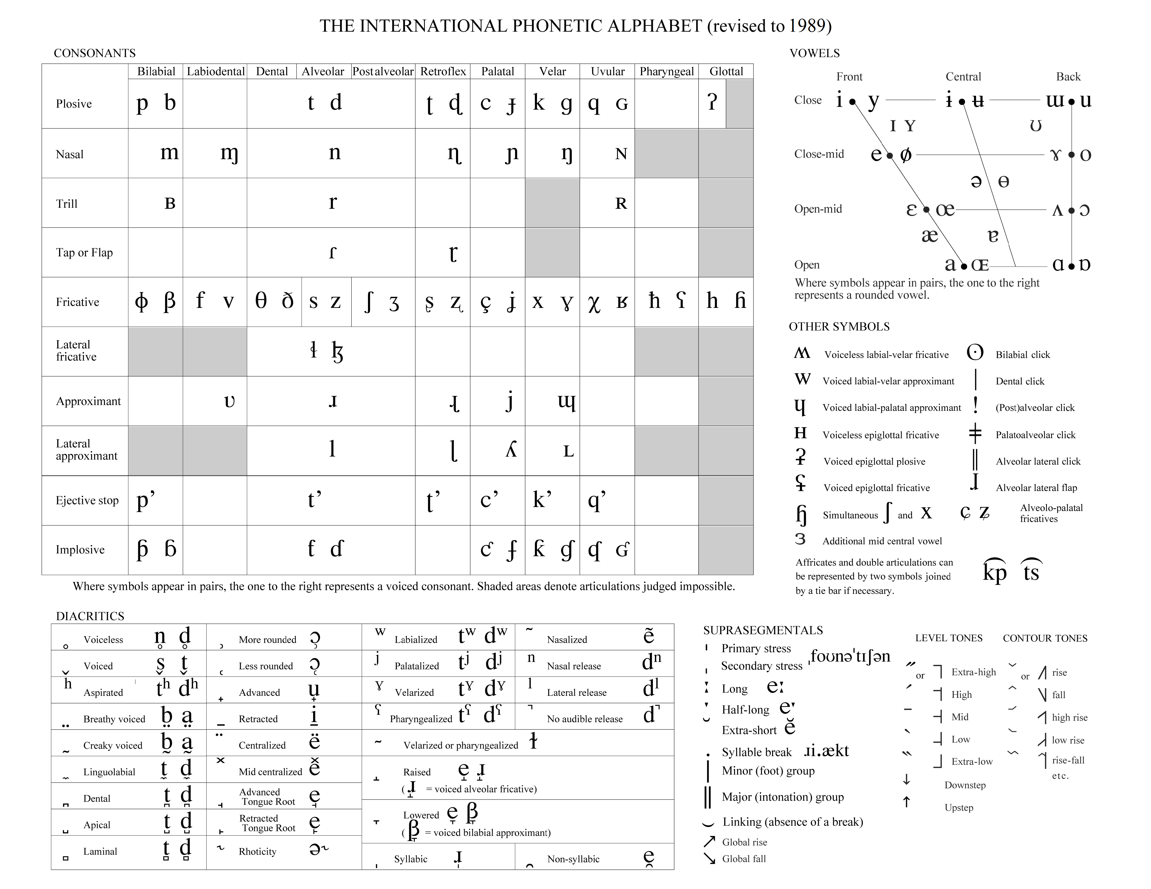 The IPA as of 1989.